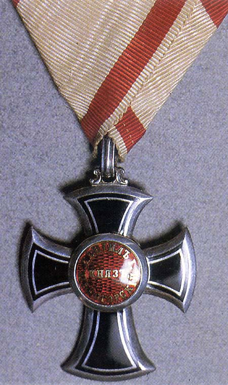 The Order of Danilo I, 5th grade